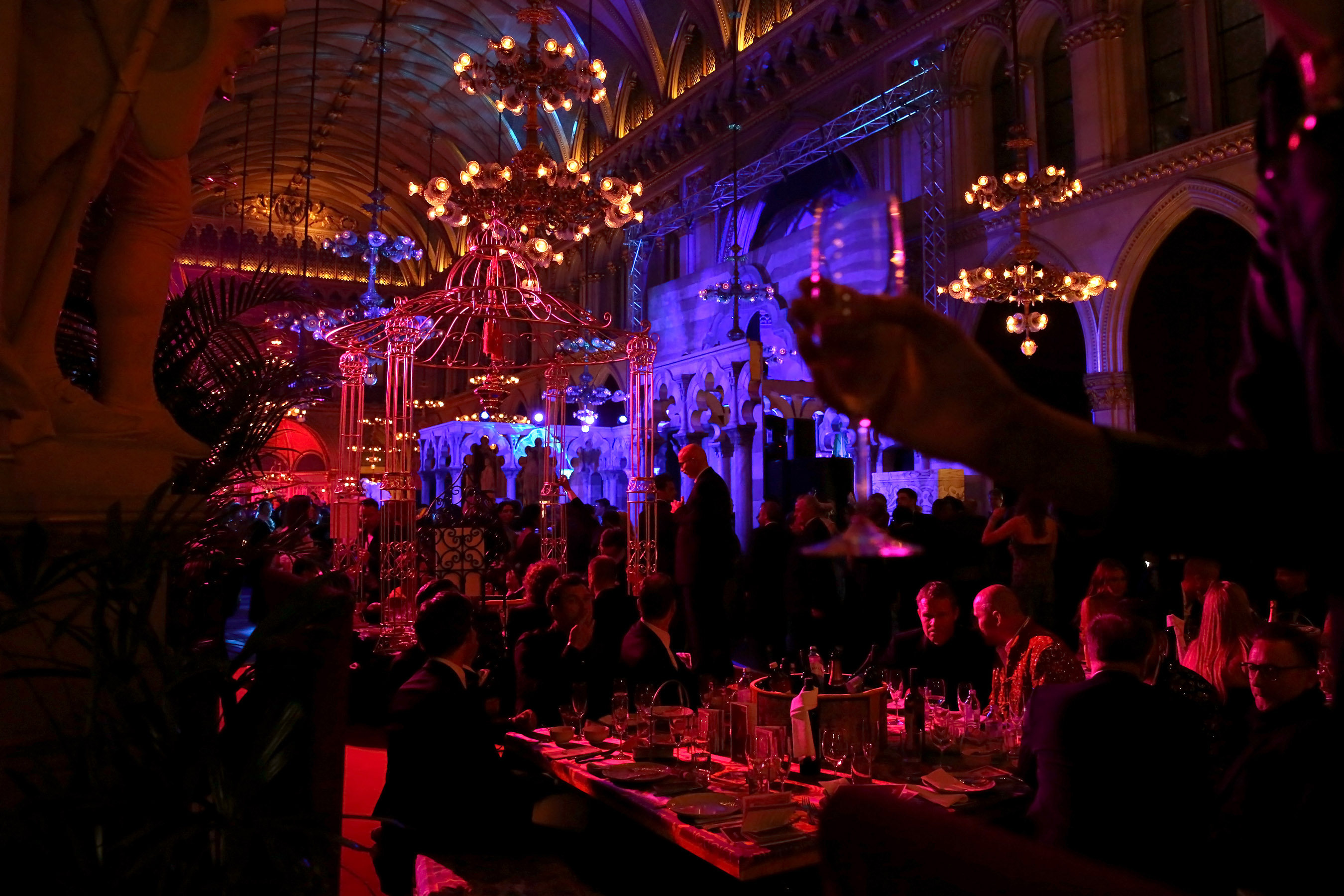 Life Ball 2013 at the city hall of Vienna, Vienna, Austria)